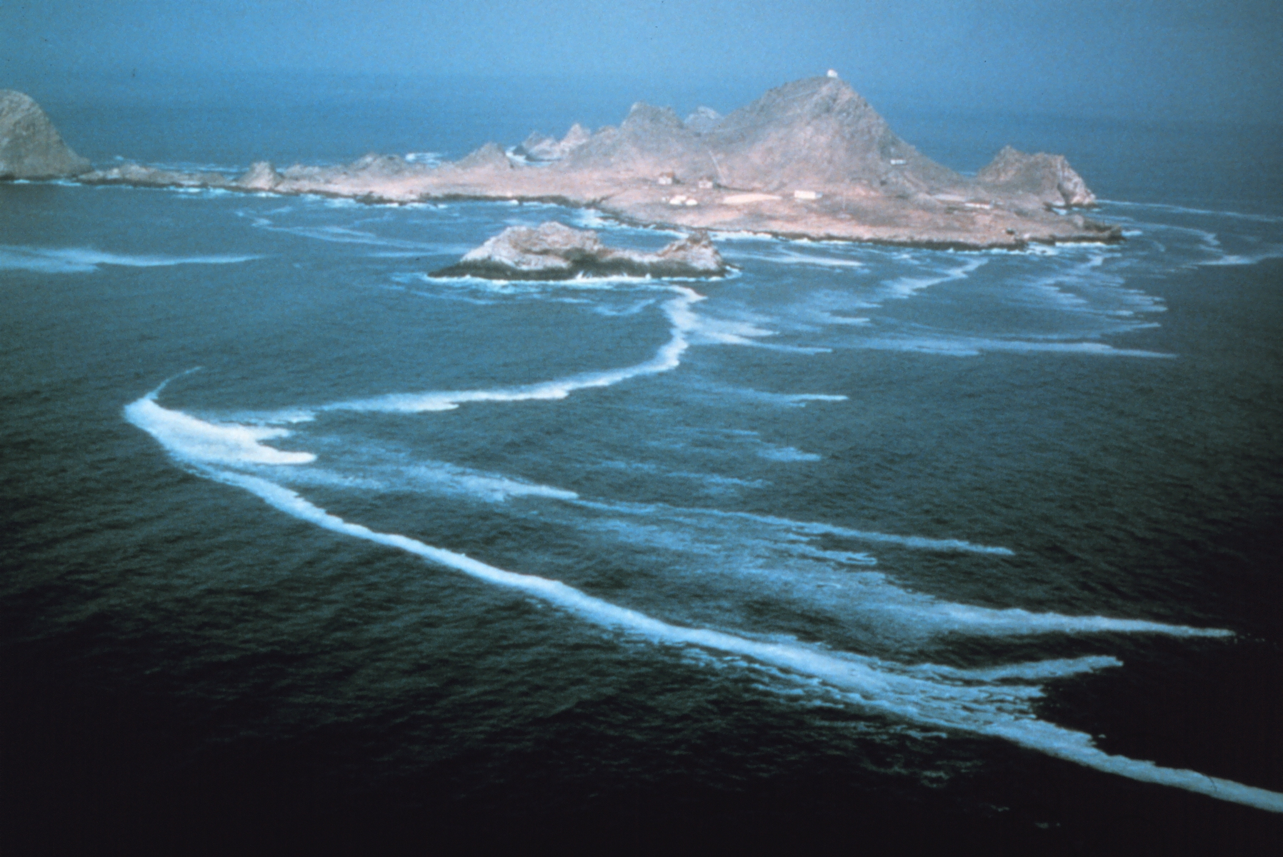 South Farallon Islands. The view is from the south, with Maintop Island to the west (viewer's left), Southeast Farallon Island in the background and Seal Rock in the center foreground.